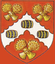 The School Coat of arms